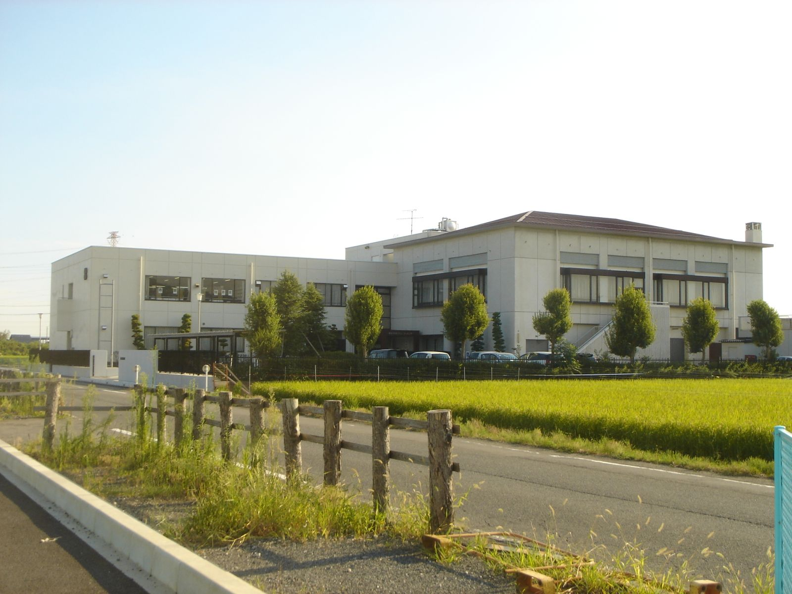 Gifu City Hokubu Community Center（岐阜市西部コミュニティセンター）,Gifu,Gifu,Japan(岐阜県岐阜市下鵜飼1丁目)で撮影。